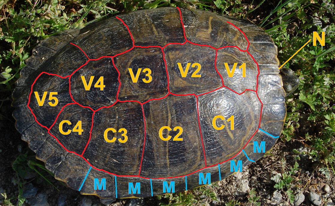 Red-eared Slider